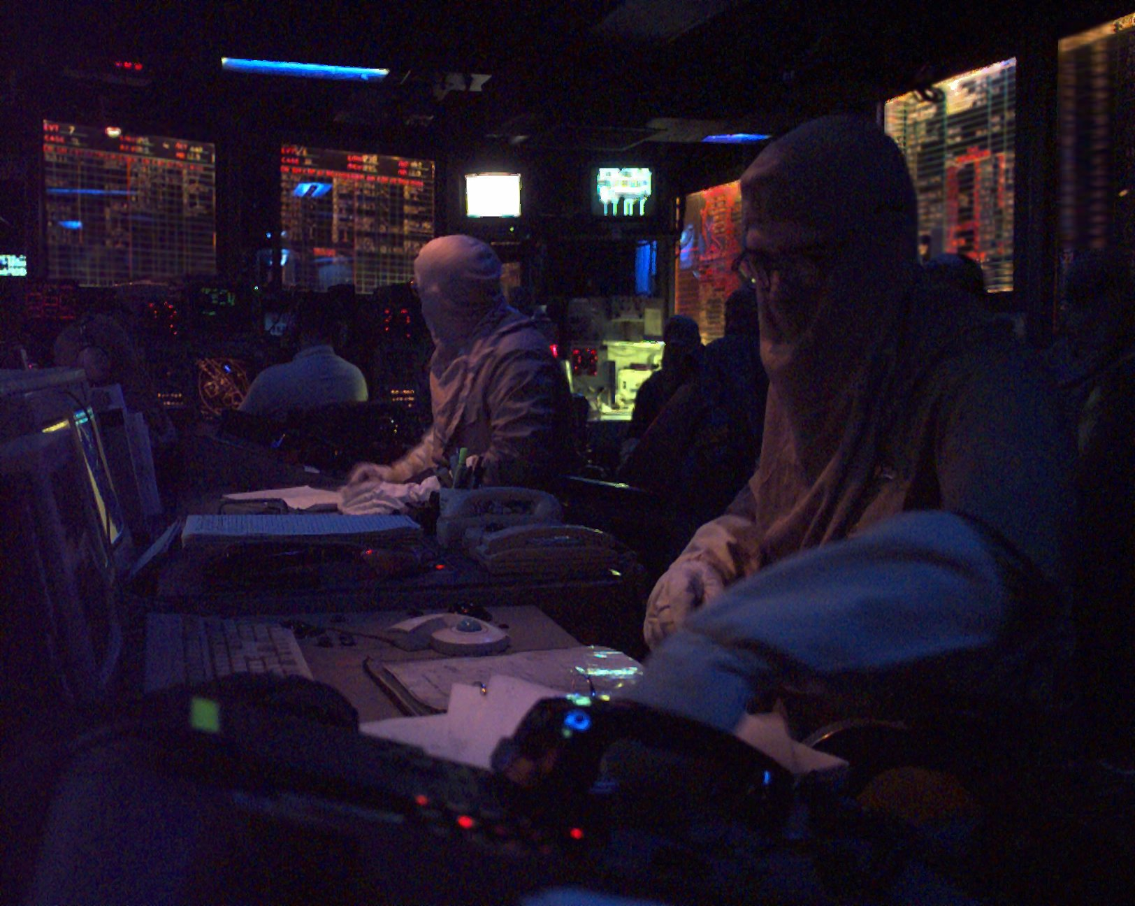 U.S. Navy Lieutenant Bill Lucas (foreground) readies for a General Quarters drill in the Combat Direction Center aboard the aircraft carrier USS Independence (CV-62), while the ship was deployed in the Persian Gulf. Independence, with assigned Carrier Air Wing 5 (CVW-5), was deployed to the Western Pacific and the Indian Ocean from 23 January to 5 June 1998.